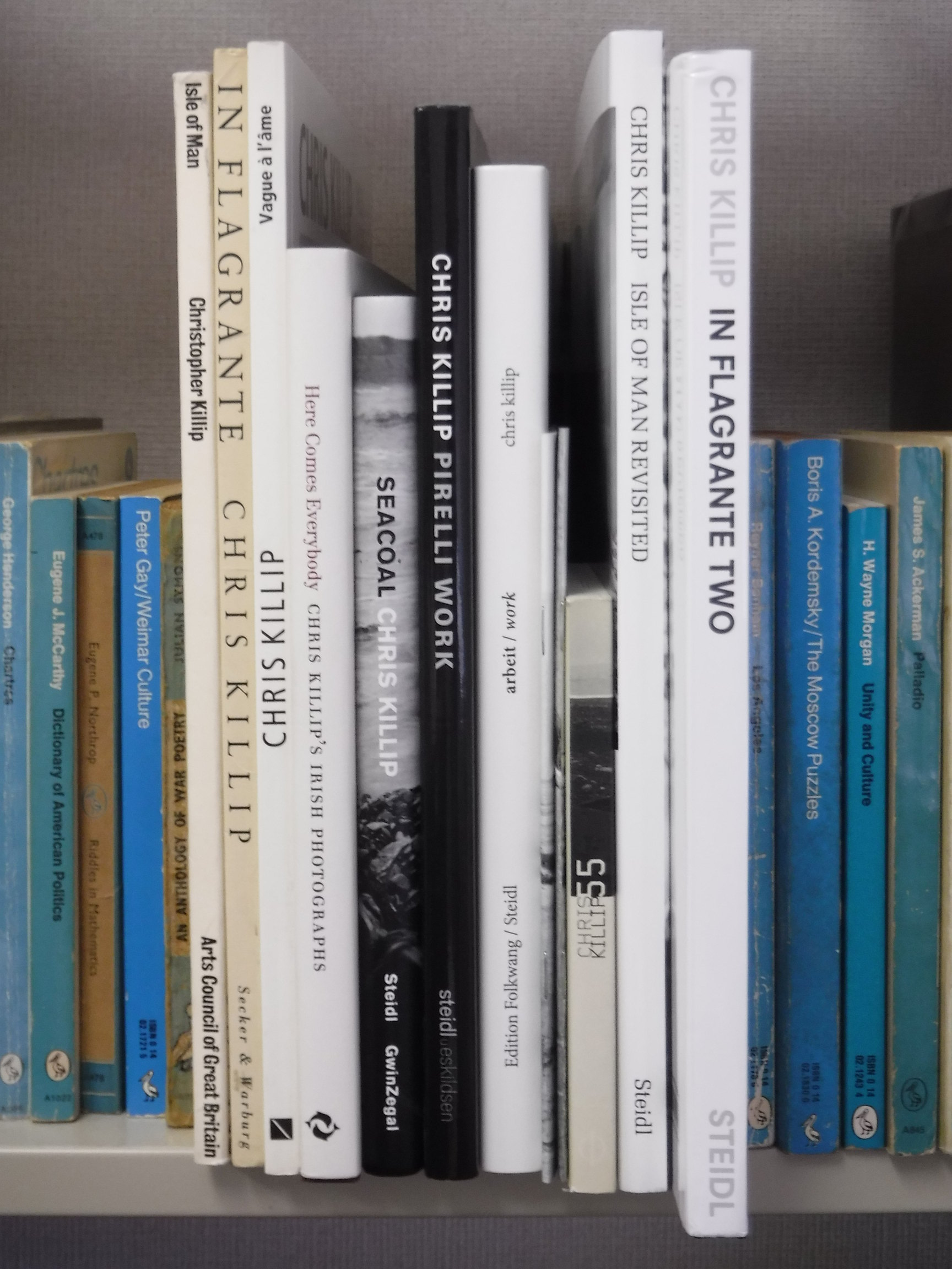 Photobooks by Chris Killop (flanked by irrelevant Pelicans)